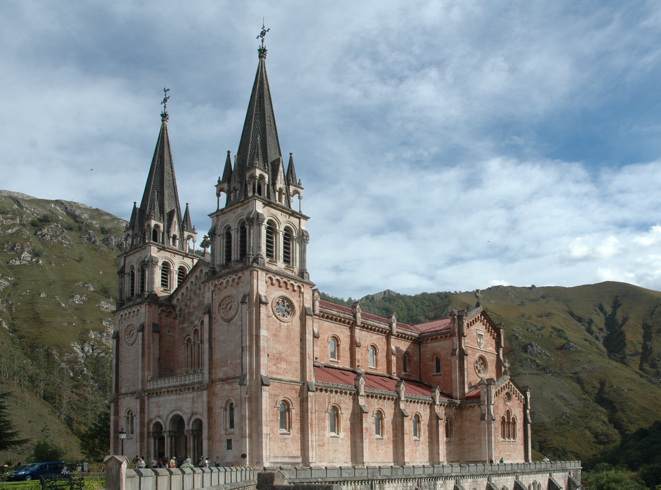 Basilica of Covadonga, Asturias - Spain